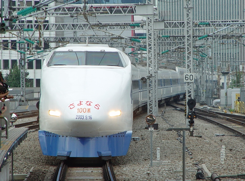 JR Central 100 series shinkansen set G49 arriving at Tokyo Station empty before operating on the final Tokaido Shinkansen 100 series service